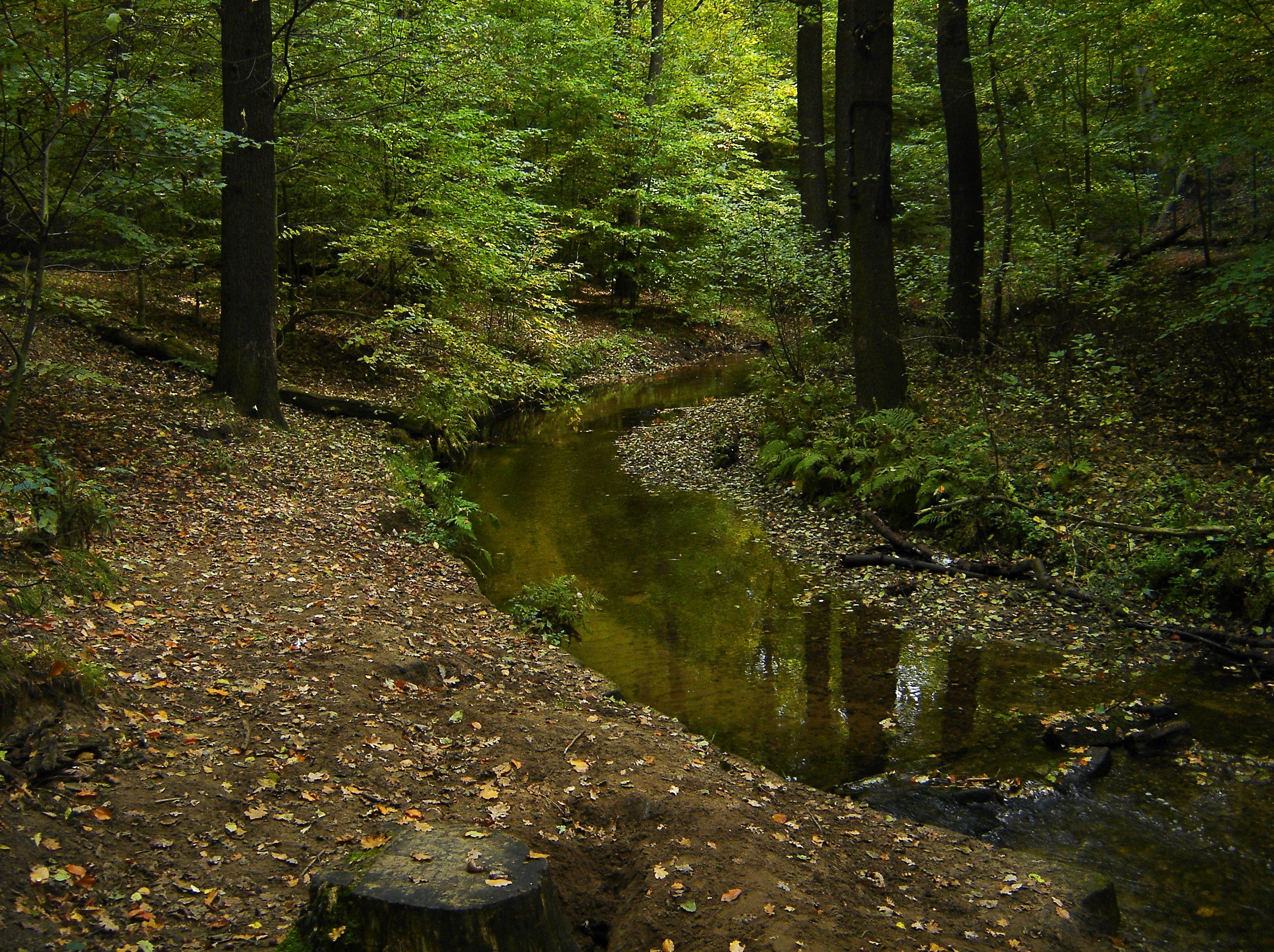 Priessnitz river in Alberstadt, Dresden